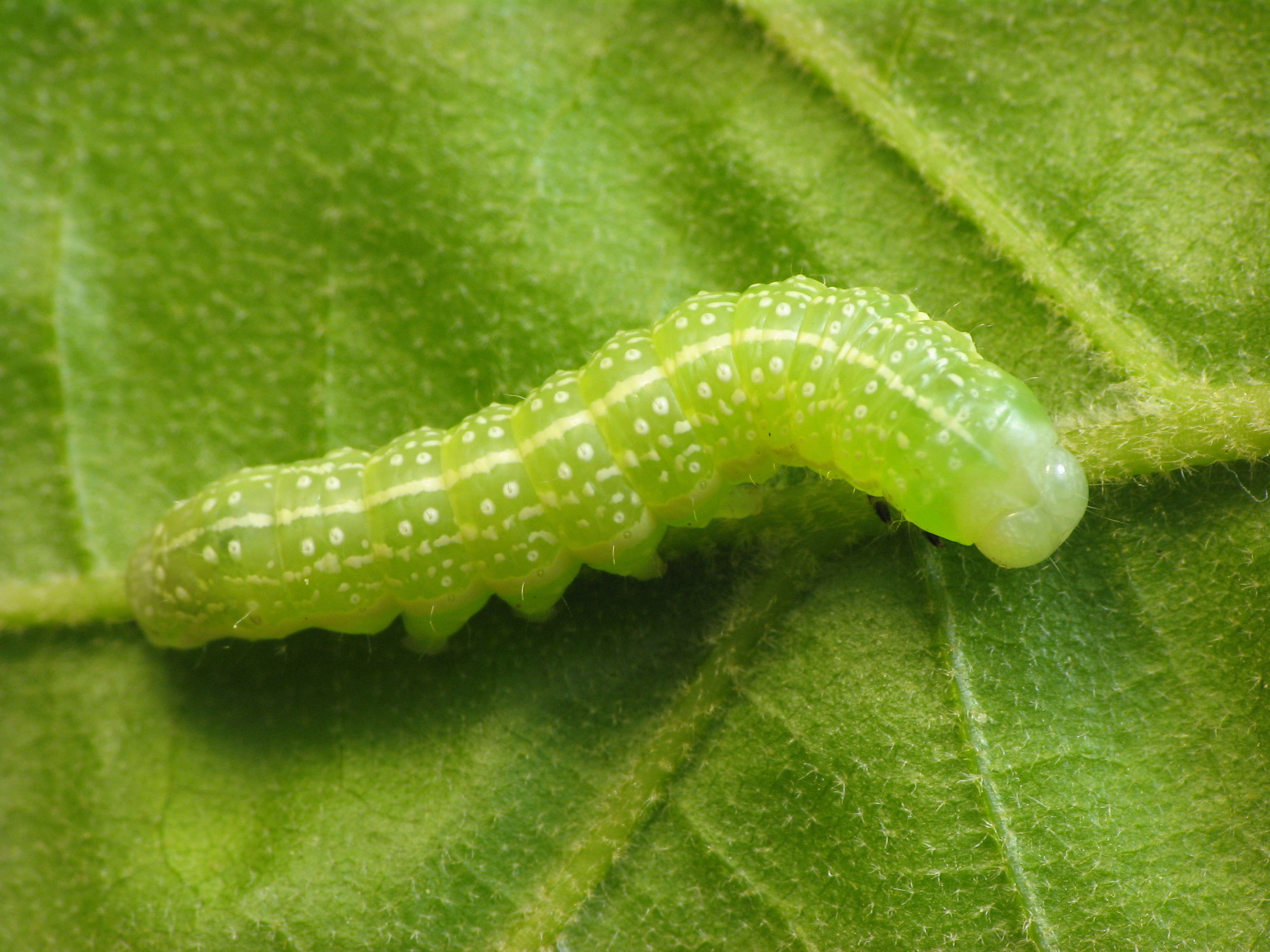 Noctuid moth caterpillar, Lithophane antennata (Ashen Pinion - Hodges#9910), on oak leaf. Size: 16-18 mm. Rocky Gap State Park, Allegany County, Maryland, USA.